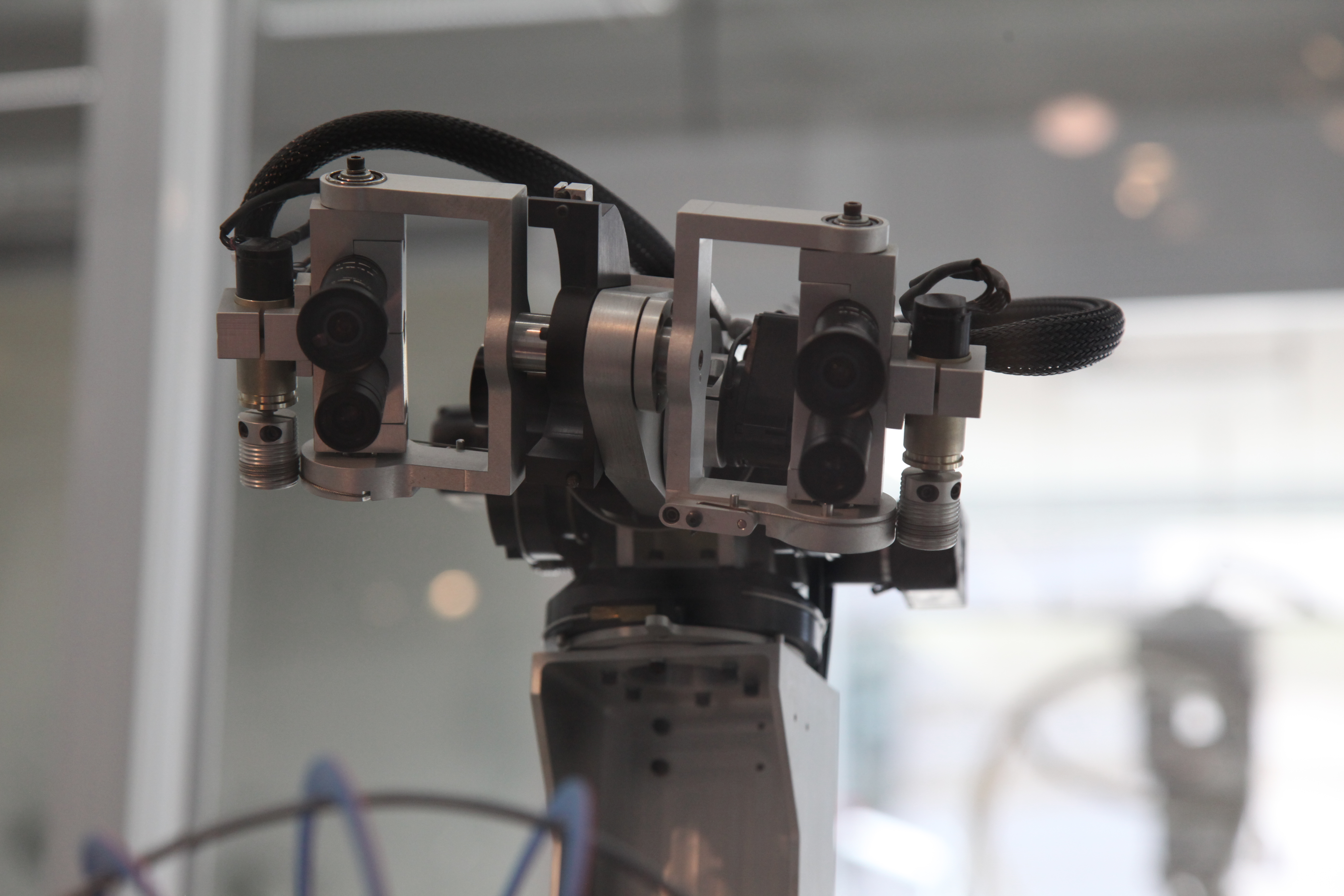 The robot Cog, on display at MIT